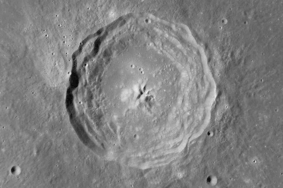 Crater Bullialdus (detail of LRO - WAC global moon mosaic; Mercator projection)